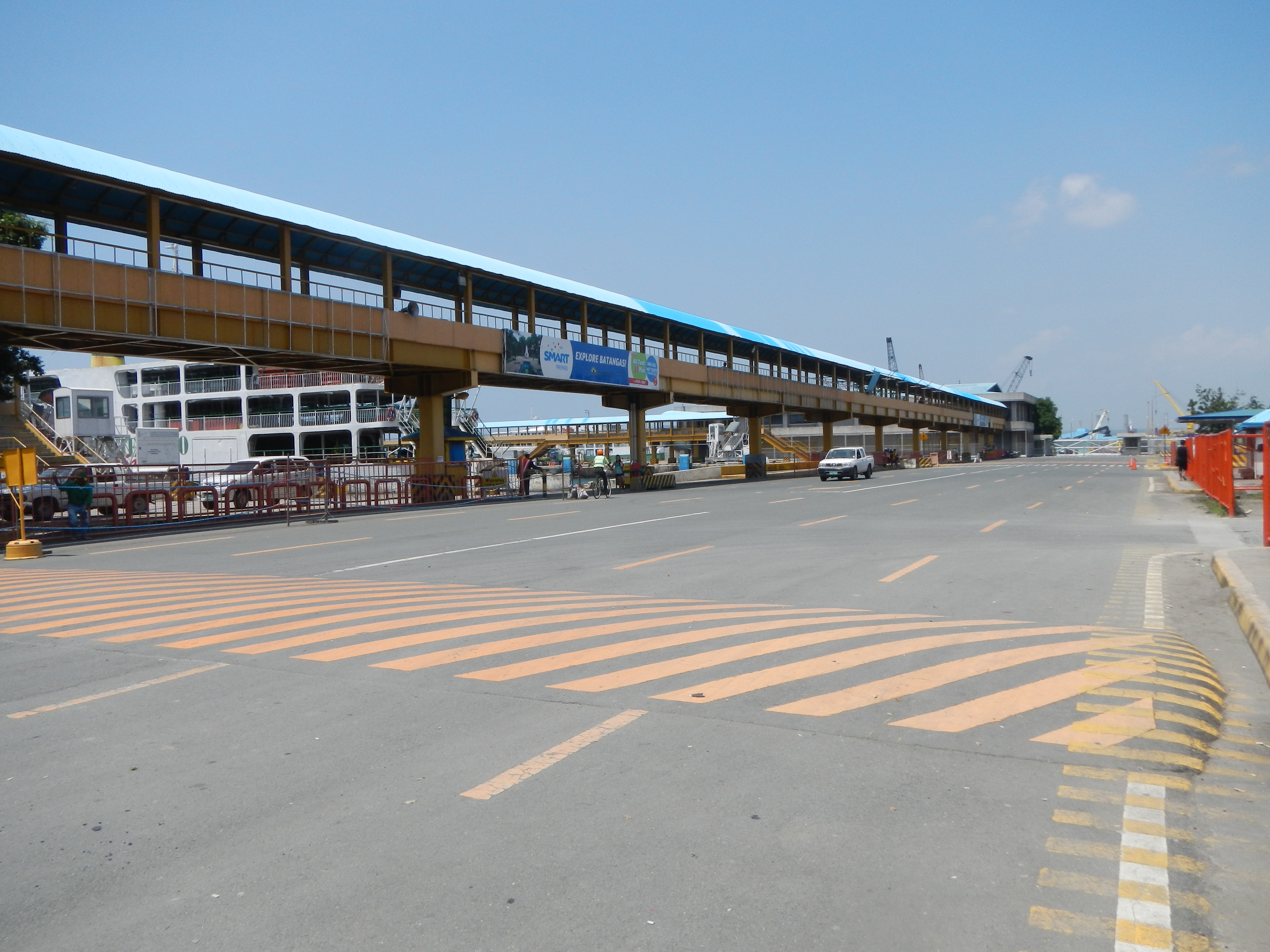 Upload Wizard -- (general description of landmarkds, town, church) - of - the Batangas Central Terminal, Waiting Area, the Port of Batangas, Batangas Port, Terminal II, Provincial PPA Livelihood Center, Governor Hermilando I. Mandanas Building, Montenegro Lines ship, ferry, Batangas [1] - Philippine Ports Authority [2], List of ports in the Philippines[3], [4] the biggest international port in the Philippines, occupying 2 towns from Bauan to Batangas City which is situated in Batangas Bay[5] (located in the Philippines - municipalities of Mabini, Bauan, San Pascual, Tingloy on Maribacan Island and Batangas City are located on the coast of the bay).